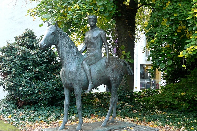 Horse and Rider This is a bronze sculpture by Elizabeth Frink from 1975. It is one of a number on the same theme in various parts of the country.